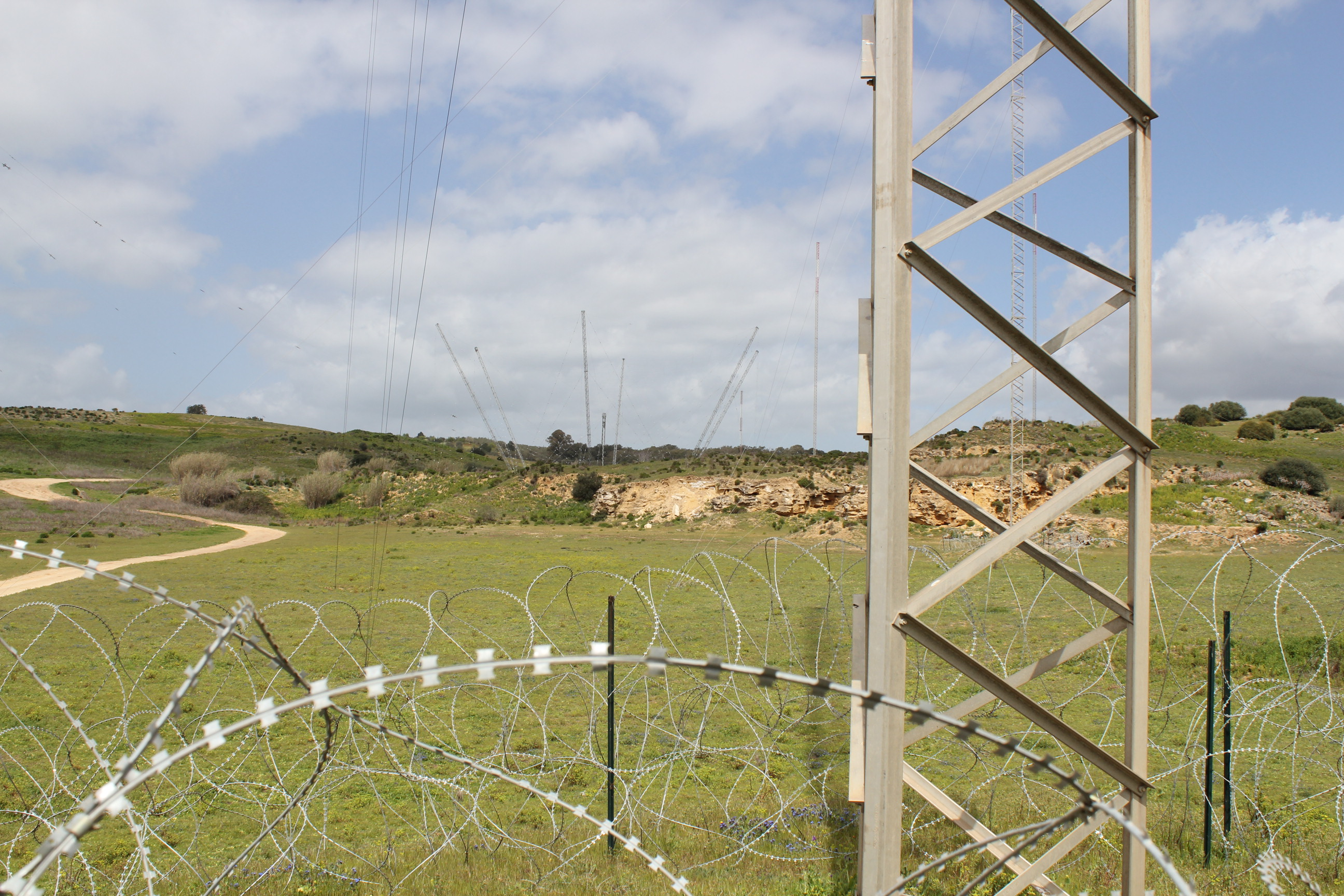 Horizontal Log Periodic Antenna tower at NRTF Niscemi. Concertine wire installation was added to discourage climbing of the antenna towers which could result in Radio Frequency (RF) burns.